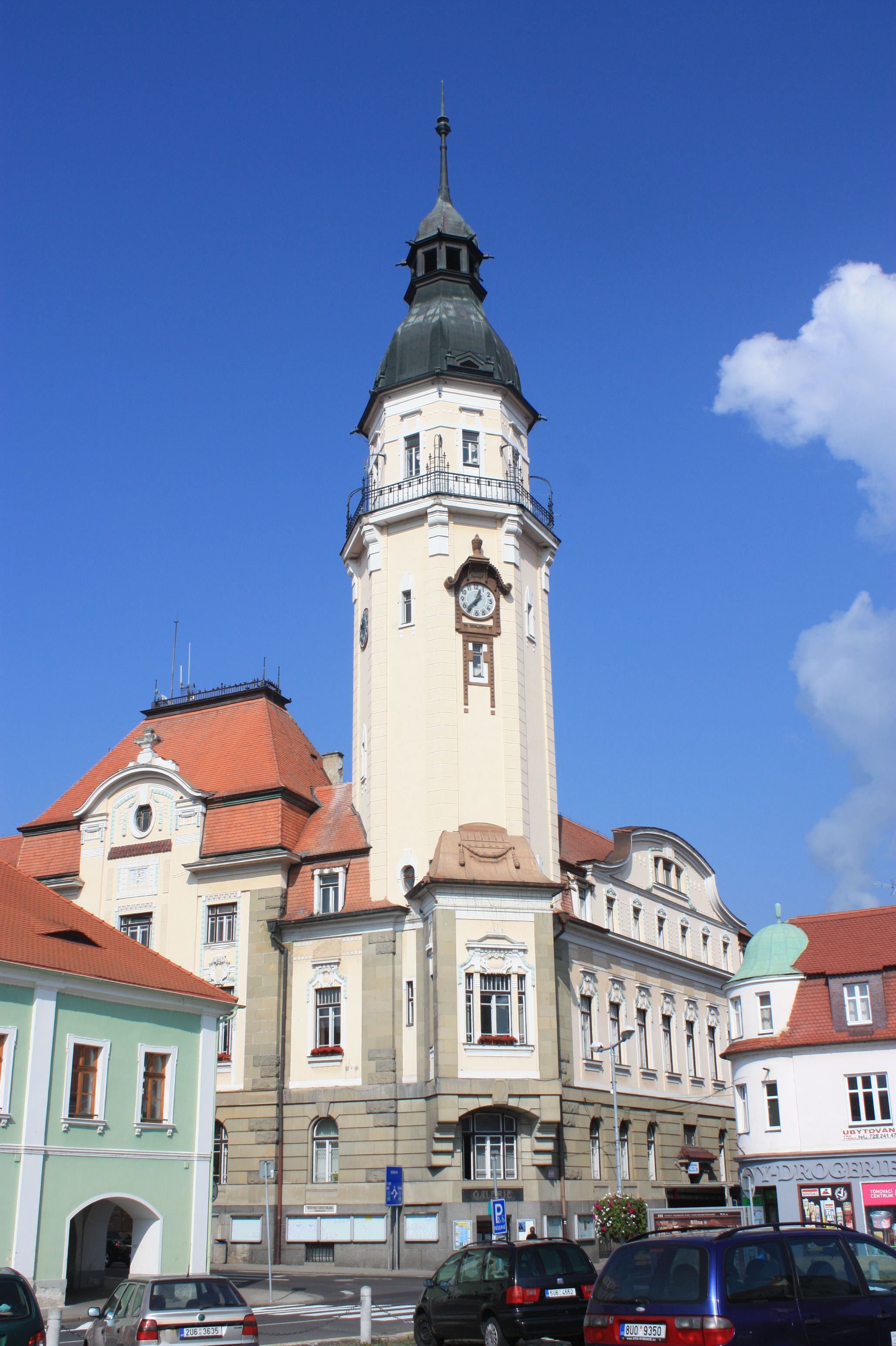 Bilina town hall, Czech Republic